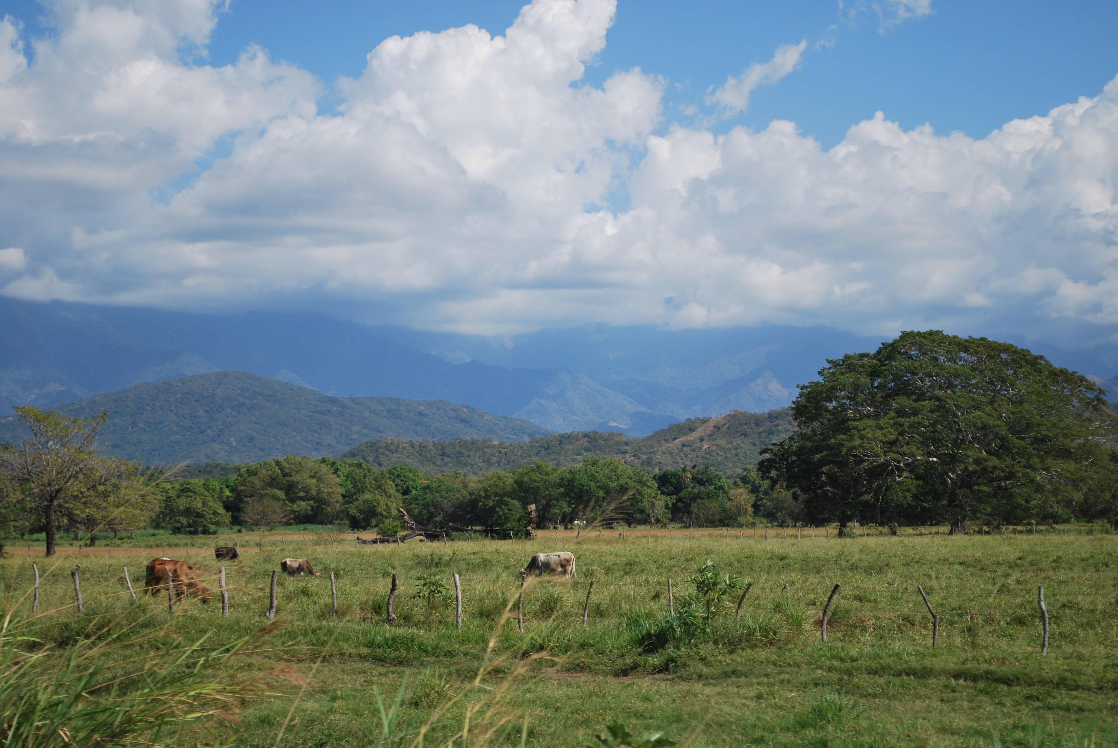 View of pasture with Sierra de Chiapas in background taken between Tonalá and Pijijiapan, Chiapas from the highway